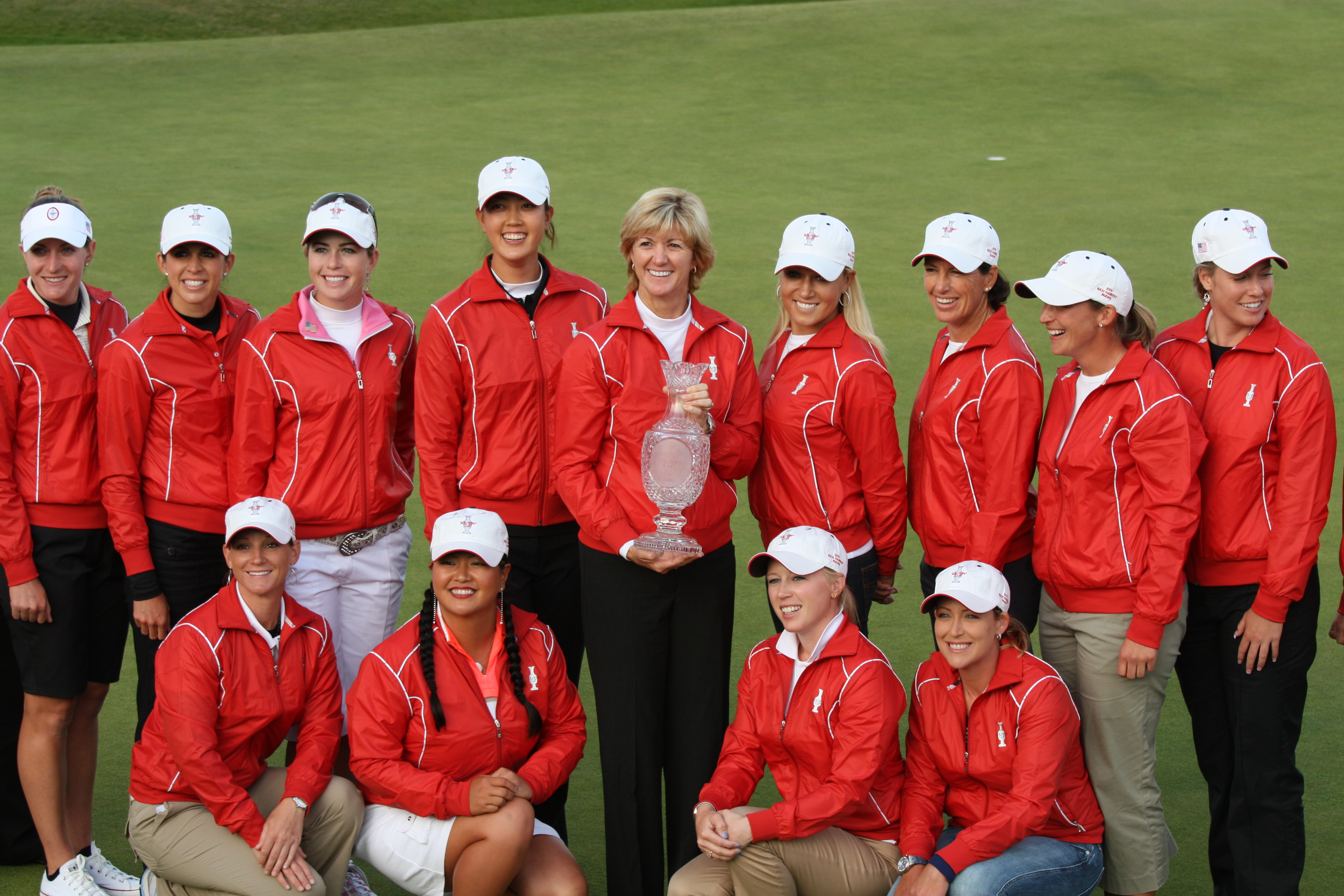 LYTHAM ST ANNES, UNITED KINGDOM - AUGUST 02: The USA Solheim Cup Team, posing for a photograph after announcement of Solheim Cup teams, which followed final round of the 2009 Ricoh Women's British Open held at Royal Lytham & St Annes on August 2, 2009 in Lytham St Annes, England. Clockwise from top-left: Brittany Lang, Nicole Castrale, Paula Creamer, Michelle Wie, Beth Daniel, Natalie Gulbis, Juli Inkster, Angela Stanford, Brittany Lincicome, Cristie Kerr, Morgan Pressel, Christina Kim, Kristy McPherson. (Photo by Wojciech Migda)